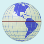 The equator is an imaginary line that goes around the middle of the Earth.